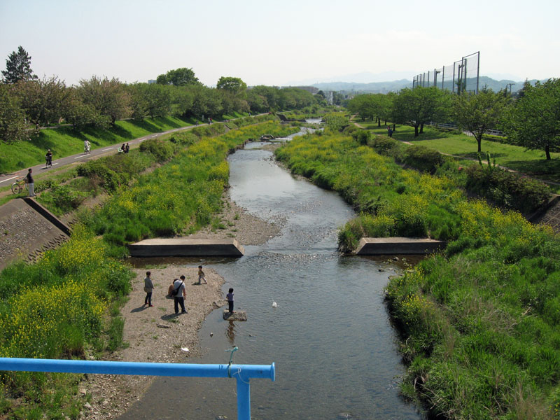 Minami-Asakawa (view from downstream to upstream)